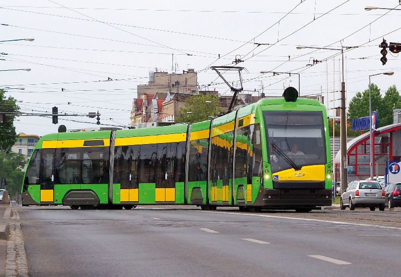 Solaris Tramino